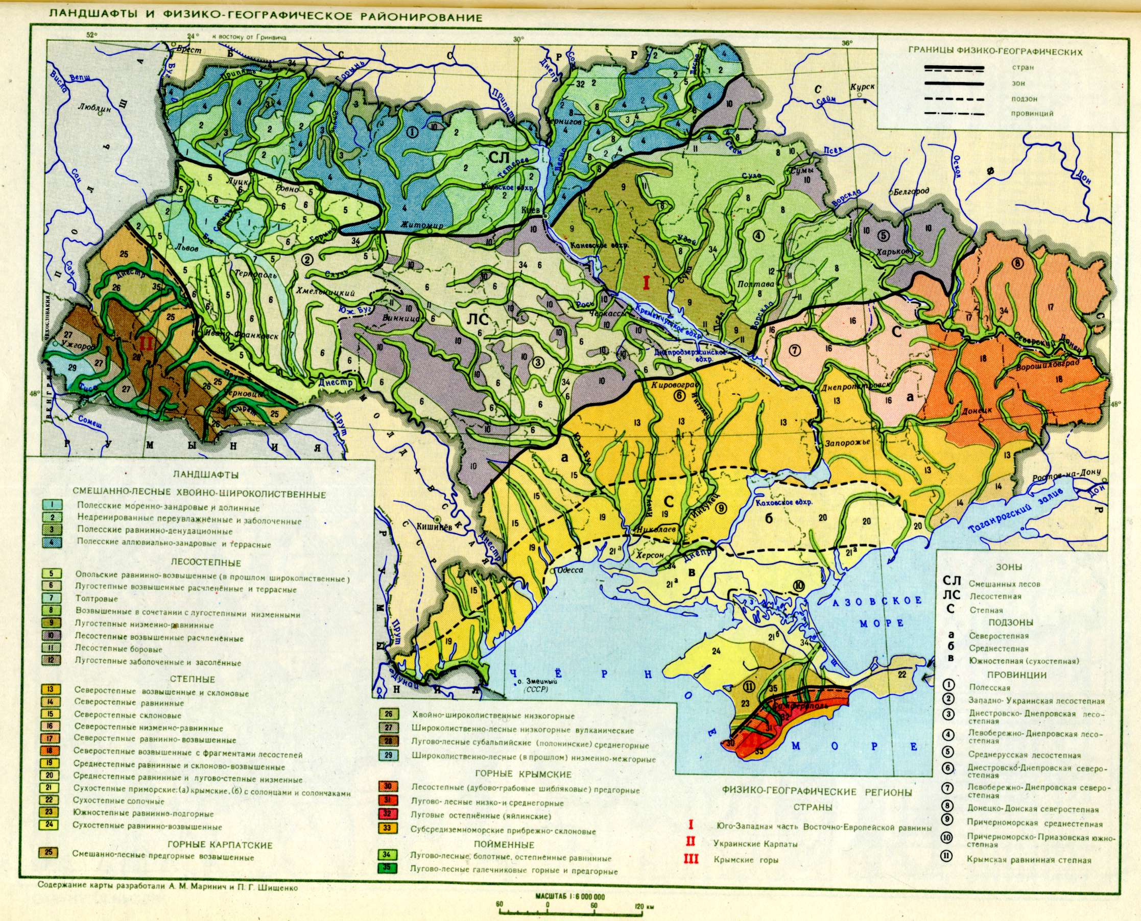 Landscapes and physical-geographical zoning of Ukraine. Map (in Russian)